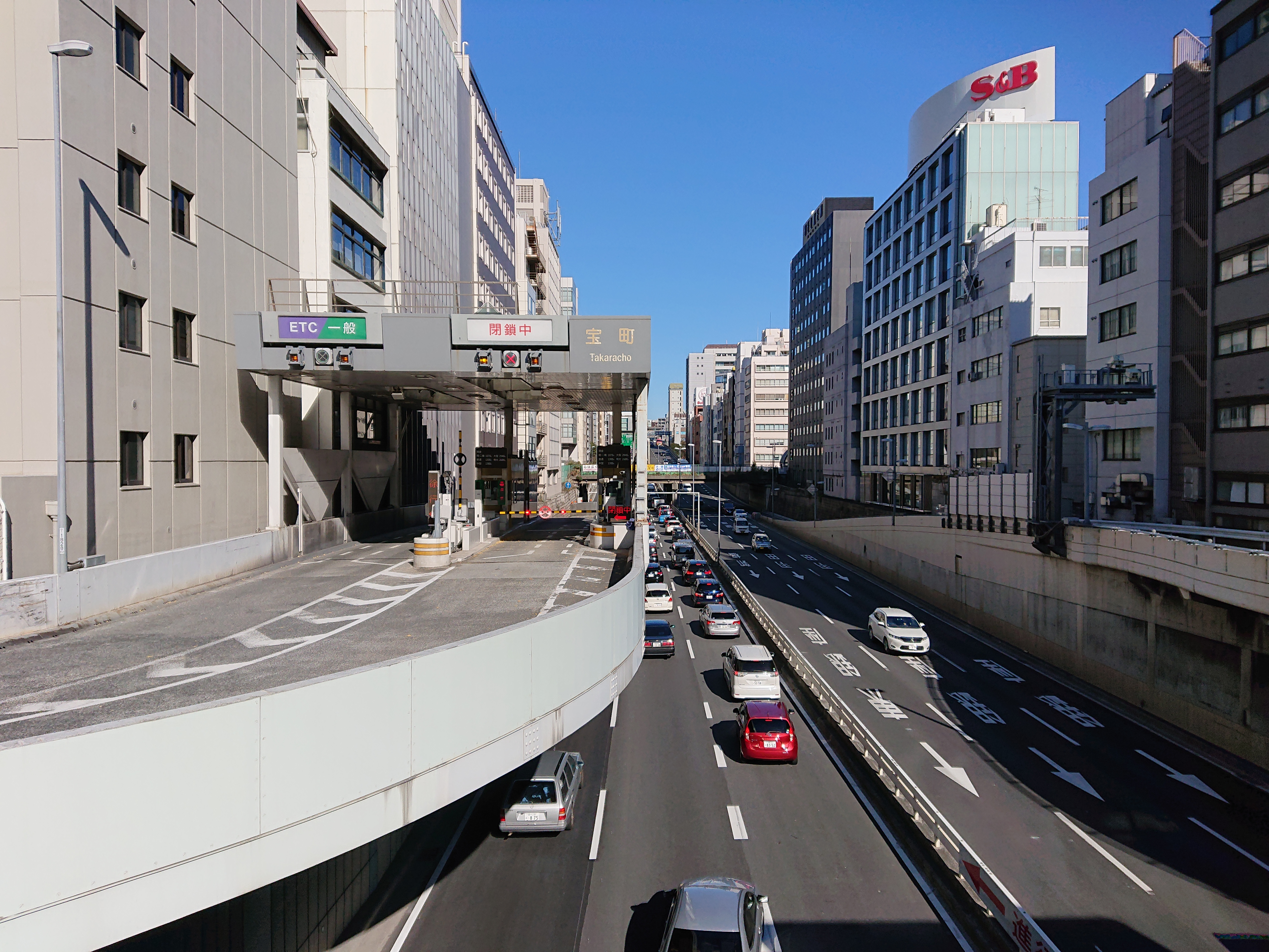 Shuto Expressway Route C1 Takaracho Tollgate, at Hatchobori, Chuo, Tokyo, Japan